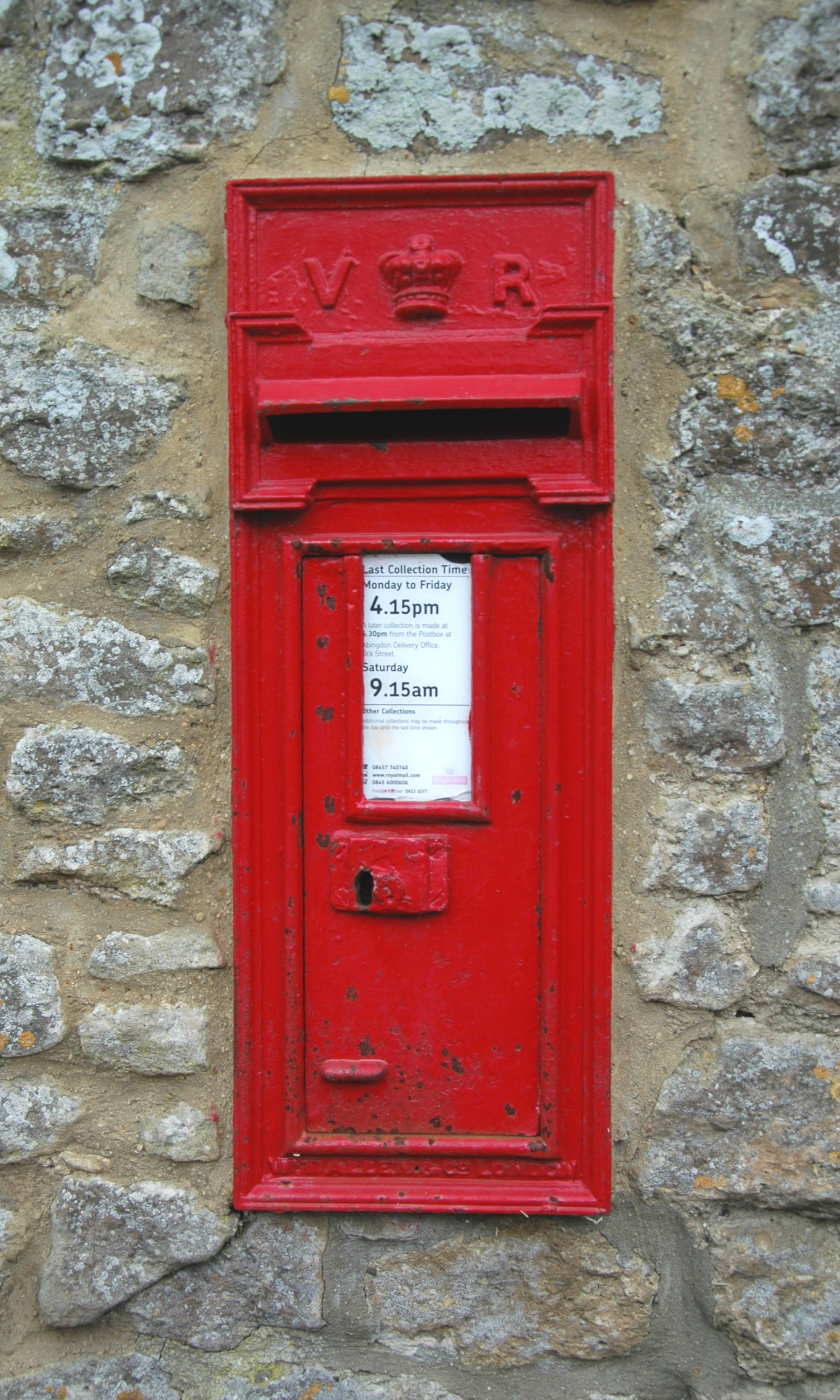 Victorian wall-mounted post box in Netherton Road, Appleton, Oxfordshire.